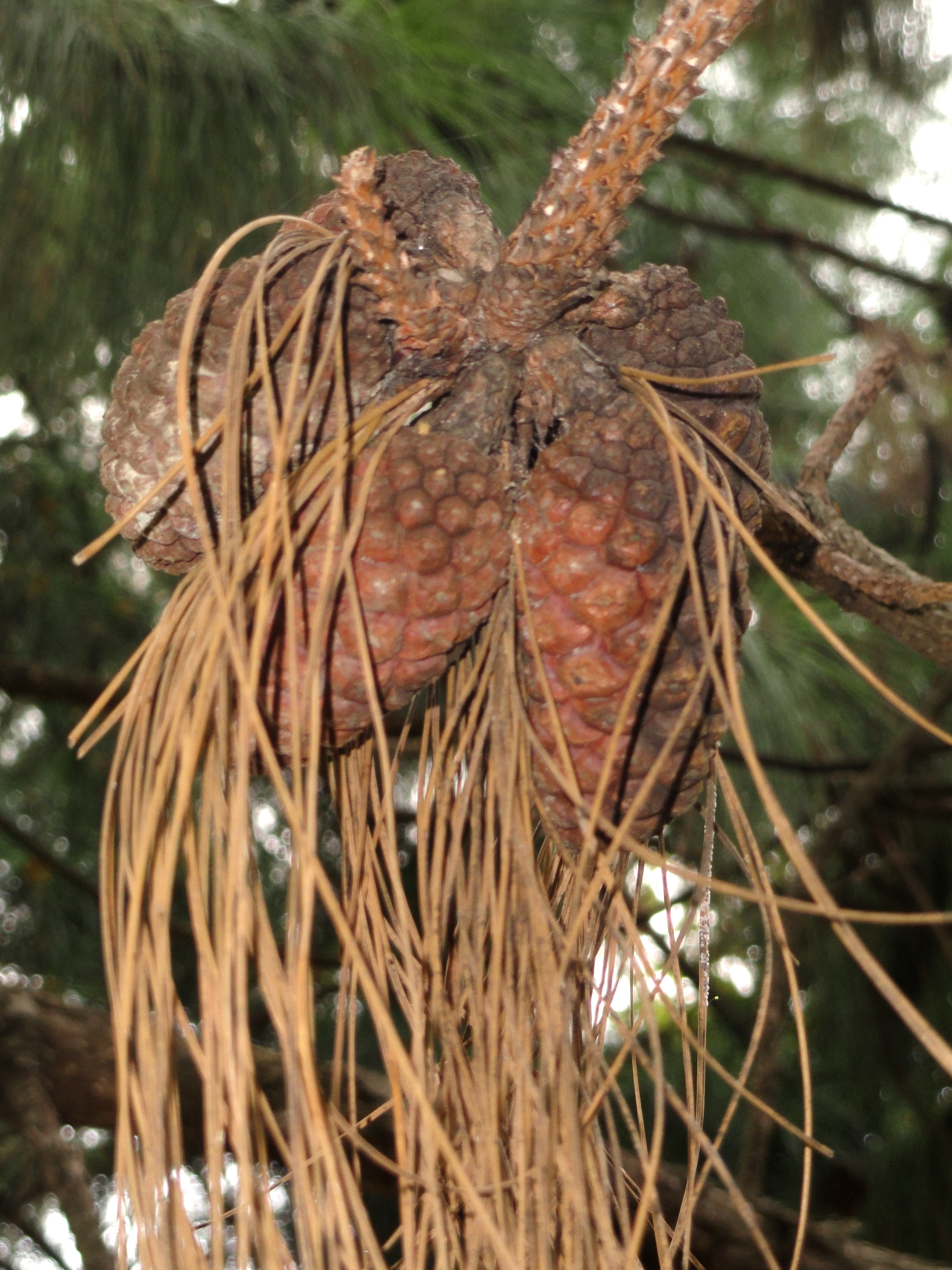 Plant specimen in the Kunming Botanical Garden, Kunming, Yunnan, China.